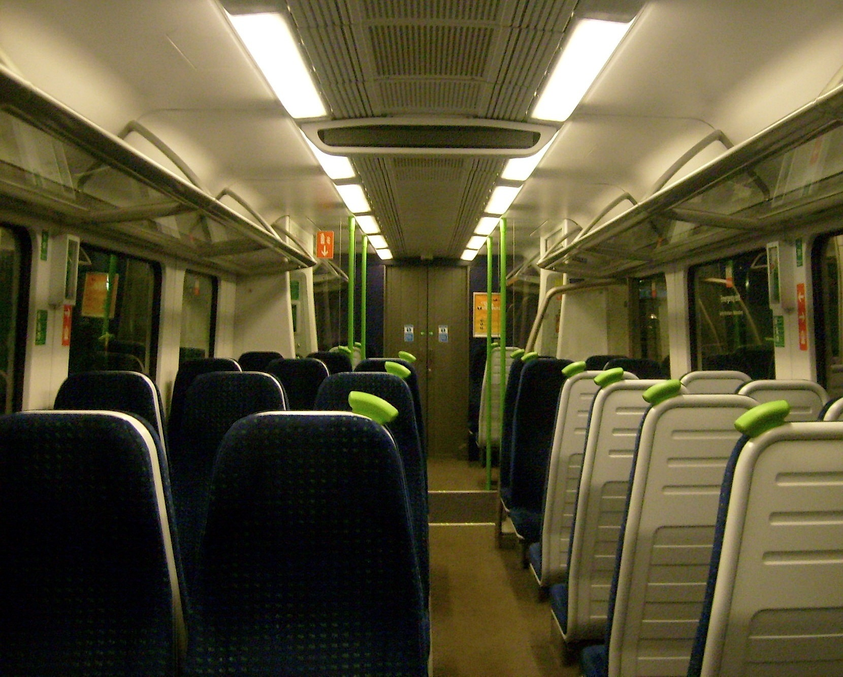 The interior aboard the DMSO vehicle from a Heathrow Connect Siemens Class 360/2 Desiro EMU.